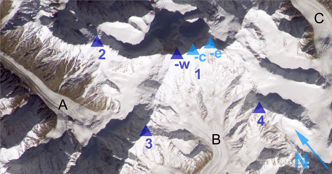 Distaghil Sar (1) seen from ISS: -w: Distaghil Sar West (7885 m) -c: Distaghil Sar Central (7760 m) -e: Distaghil Sar East (7700 m) And surrounding mountains: 2: Malangutti Sar (7207 m) 3: Bularung Sar (7134 m) 4: Kunyang Chhish North (7108 m) and the glaciers: A: Momhil glacier B: Kunyang glacier C: Yazghil Glacier